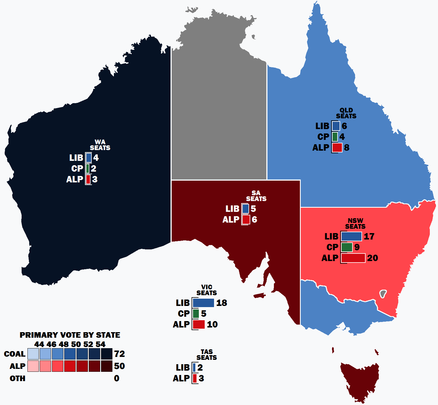 Result of the primary vote by state in the 1963 Australian federal election.